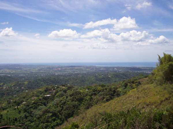 View of the Caribbean Sea from CROEM (Residential Center of Educative Opportunities of Mayagüez)